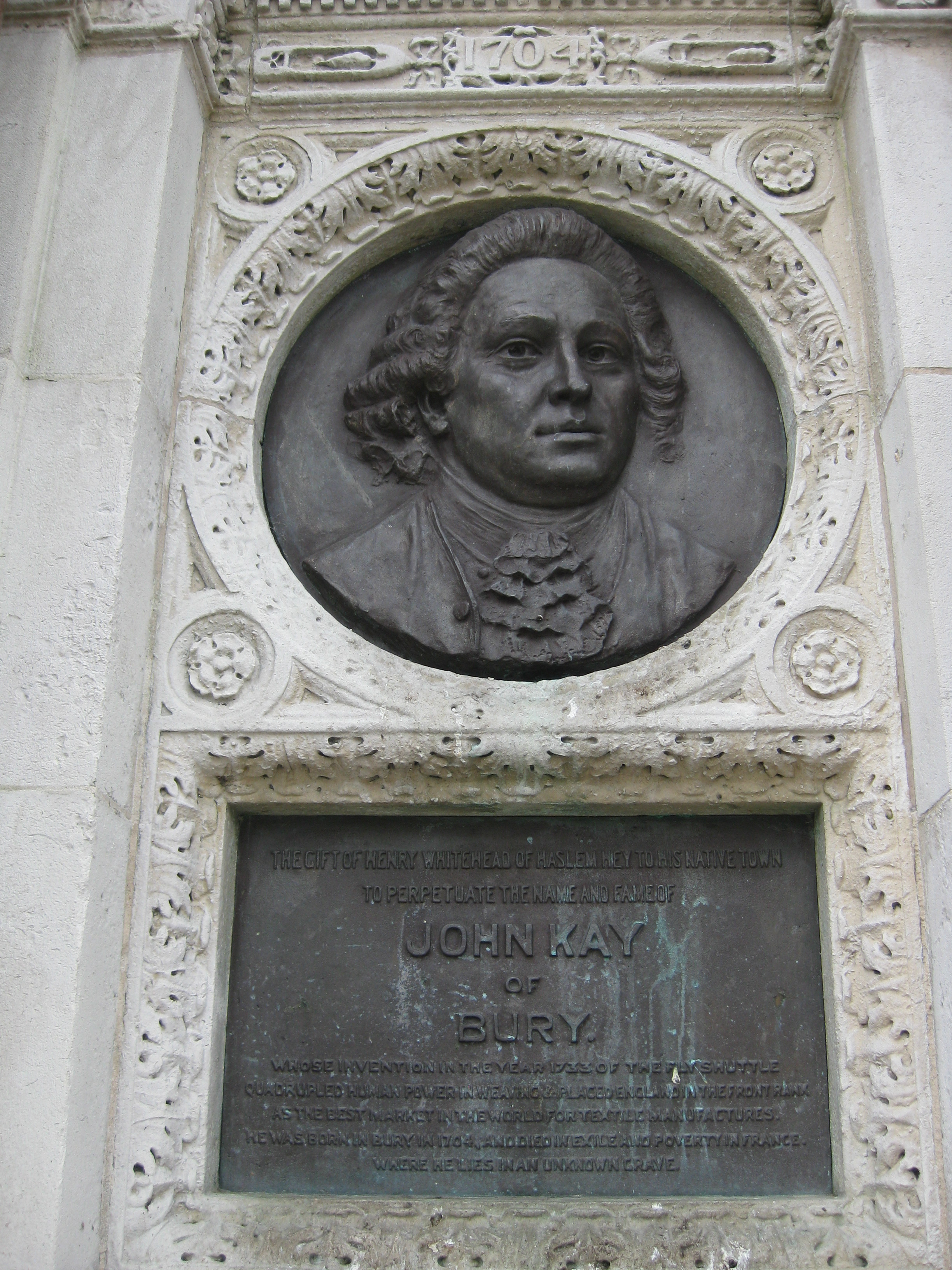 Detail on the John Kay Memorial, Bury. Bronze medal portrait and bronze plaque inscription. "The gift of Henry Whitehead of Haslem Hey to his native town to perpetuate the name and fame of JOHN KAY of Bury"